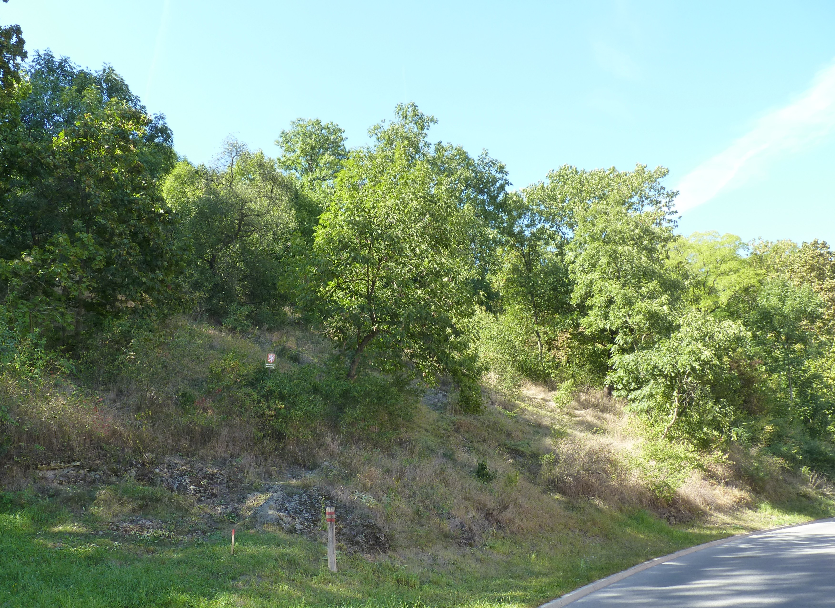 Andělka a Čertovka (natural monument). Brno-Country District, South Moravian Region, Czech Republic